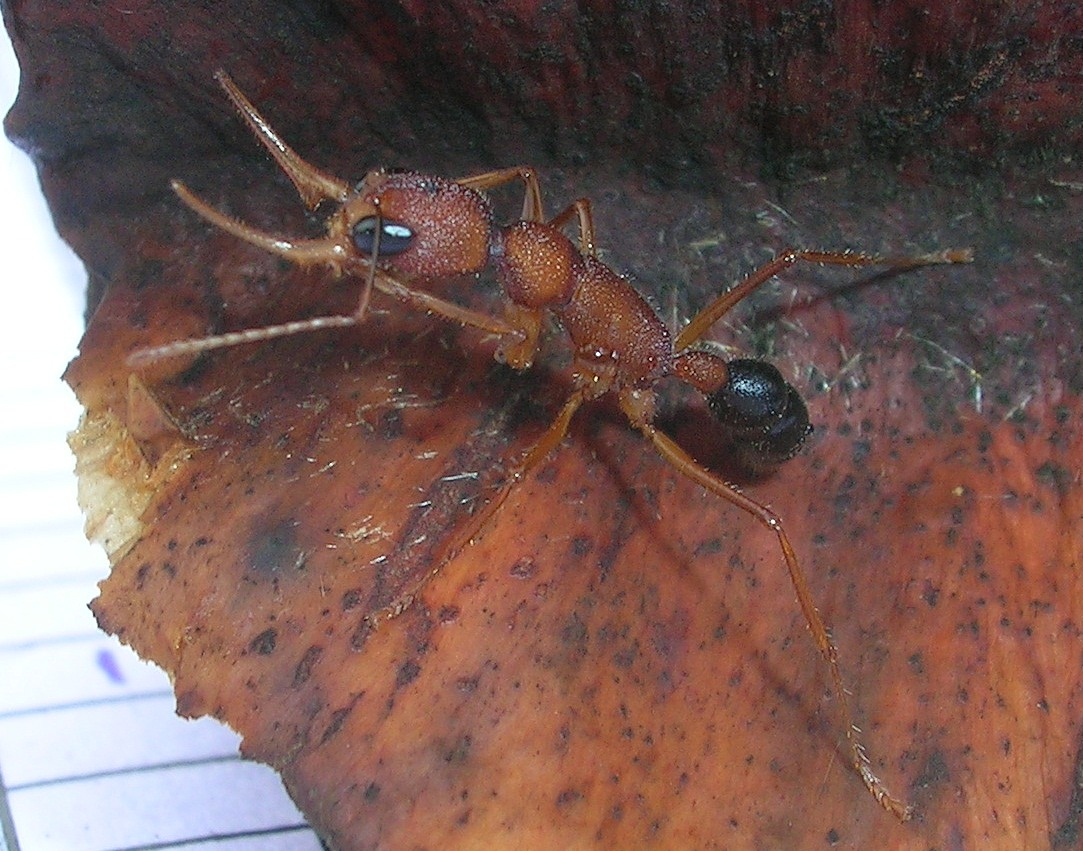 Harpegnathos saltator from the BR hills